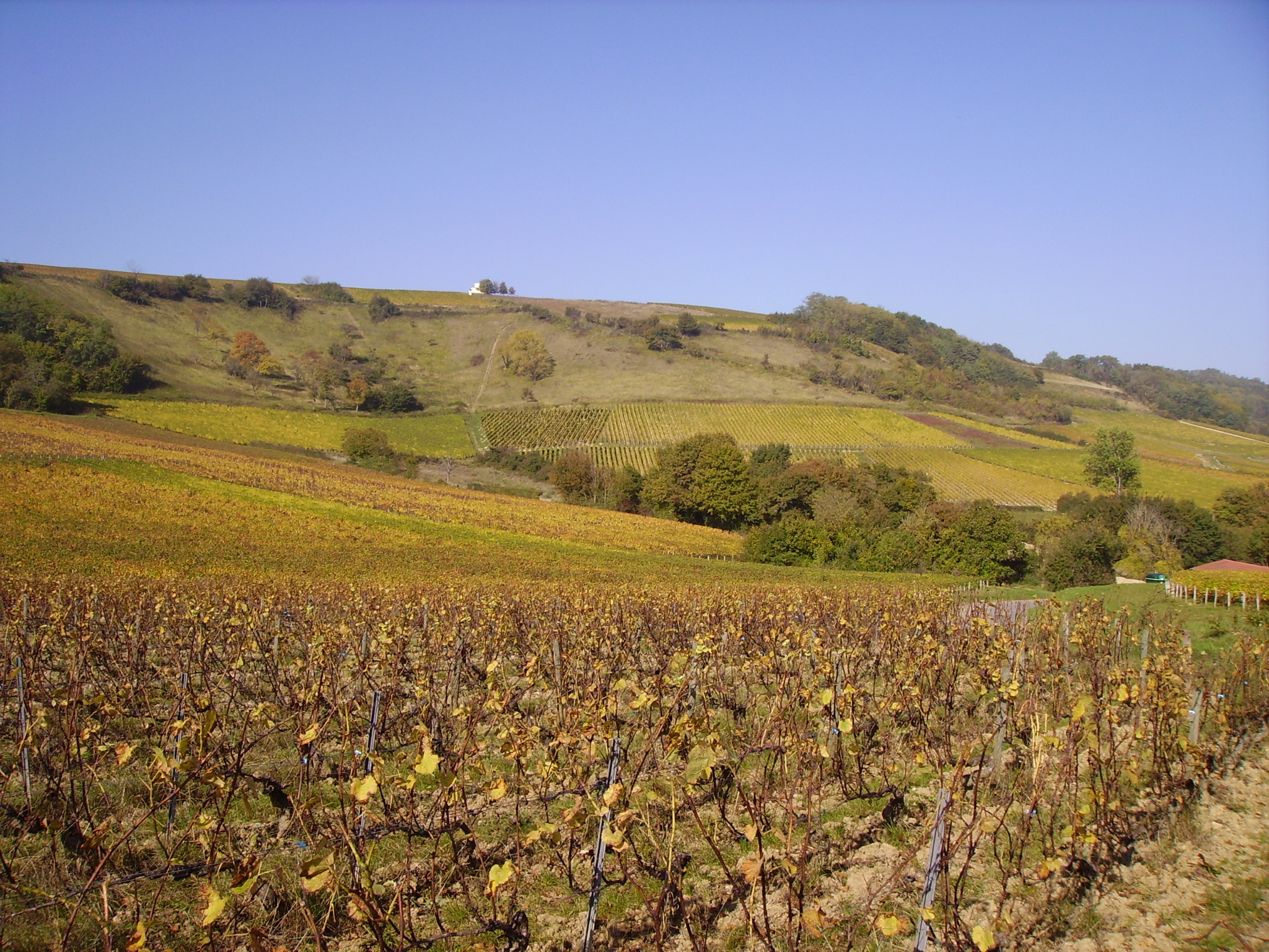 Bué vineyard, France.